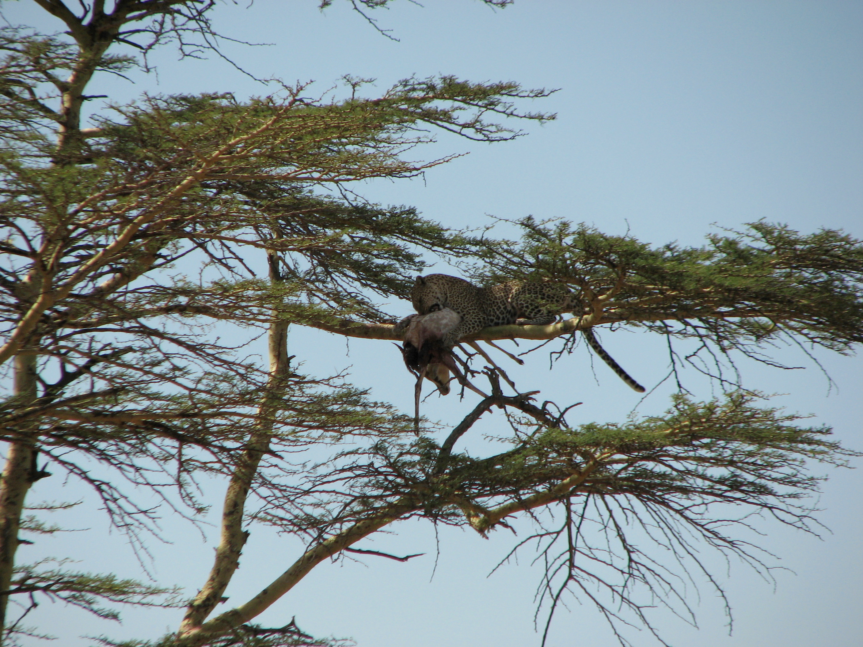 Leopard eating its prey (Thomson's Gazelle) in a tree, Serengeti, Tanzania